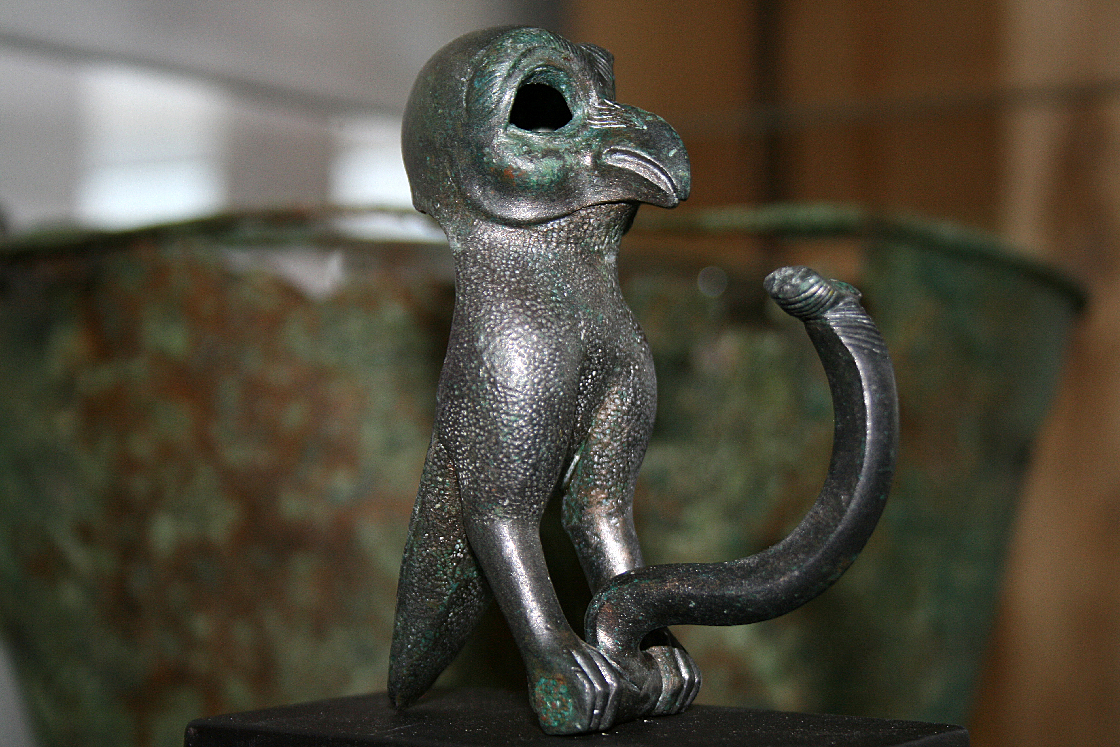 Ornamental part of a container representing an owl Stage : La Tène culture (- 200 years Before the Current Era) Place of discovery : Batillly-en-Gâtinais, Loiret, France